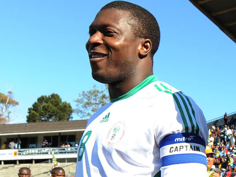 Yakubu captains Nigeria against S.Africa